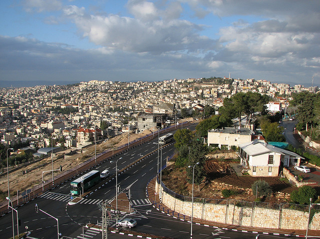 View of the city of Nazareth,Israel